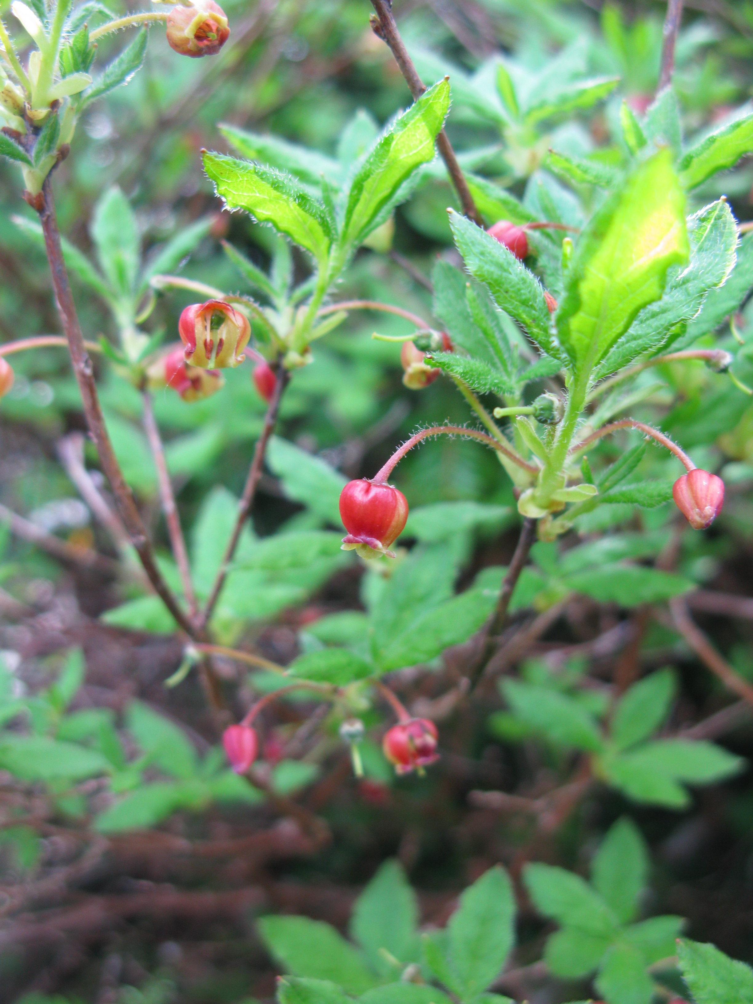 Menziesia pentandra, Mt. Nishiazuma-yama, Yamagata pref., Japan